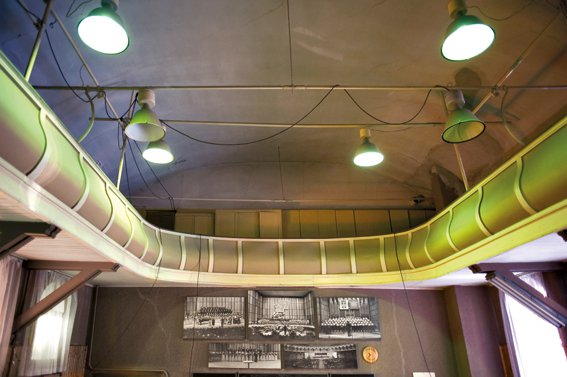 Bulgaria: Dobrich synagogues' interior